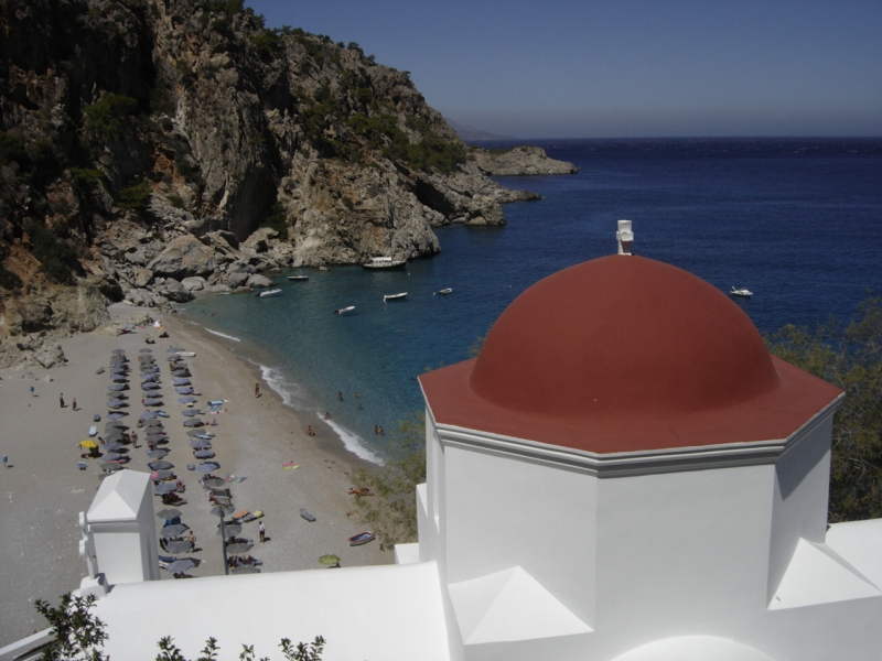 Church and beach at Kyra Panagia, Island of Karpathos, Greece